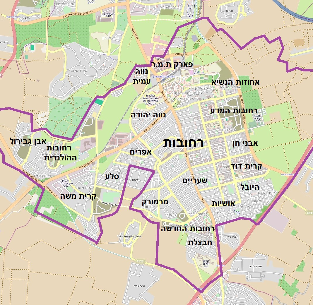 This map may be incomplete, and may contain errors. Don't rely solely on it for navigation.